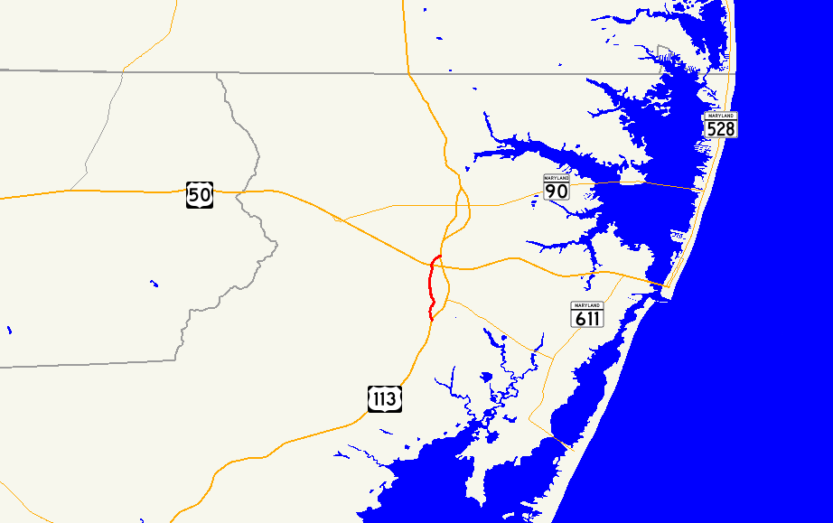 Map of Maryland Route 818